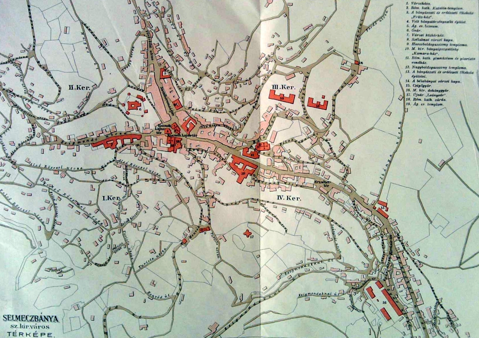 Banská Štiavnica - map, 1906